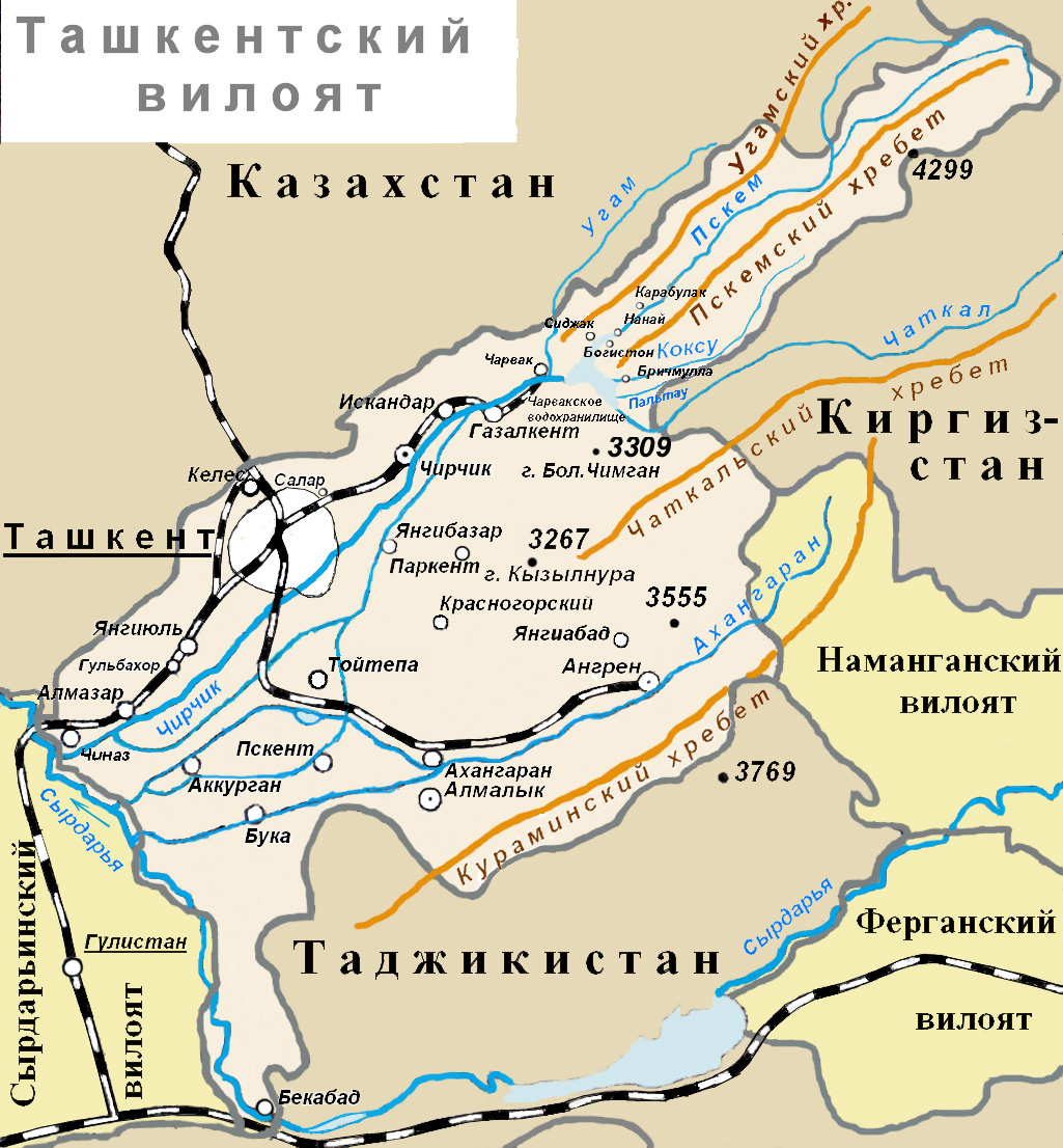 Map over the Tashkent province, Uzbekistan.